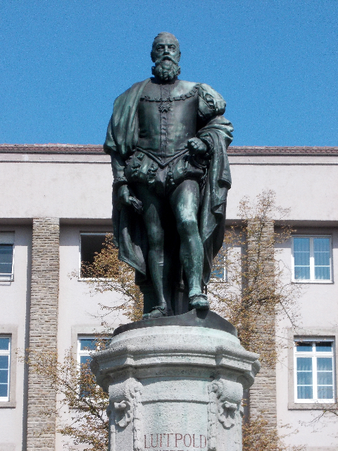 Photo taken on 2014-08-20 02:19:09. Sculptor of this monument: Franz Bernauer (1861 Munich - 1916 München, Bavaria)